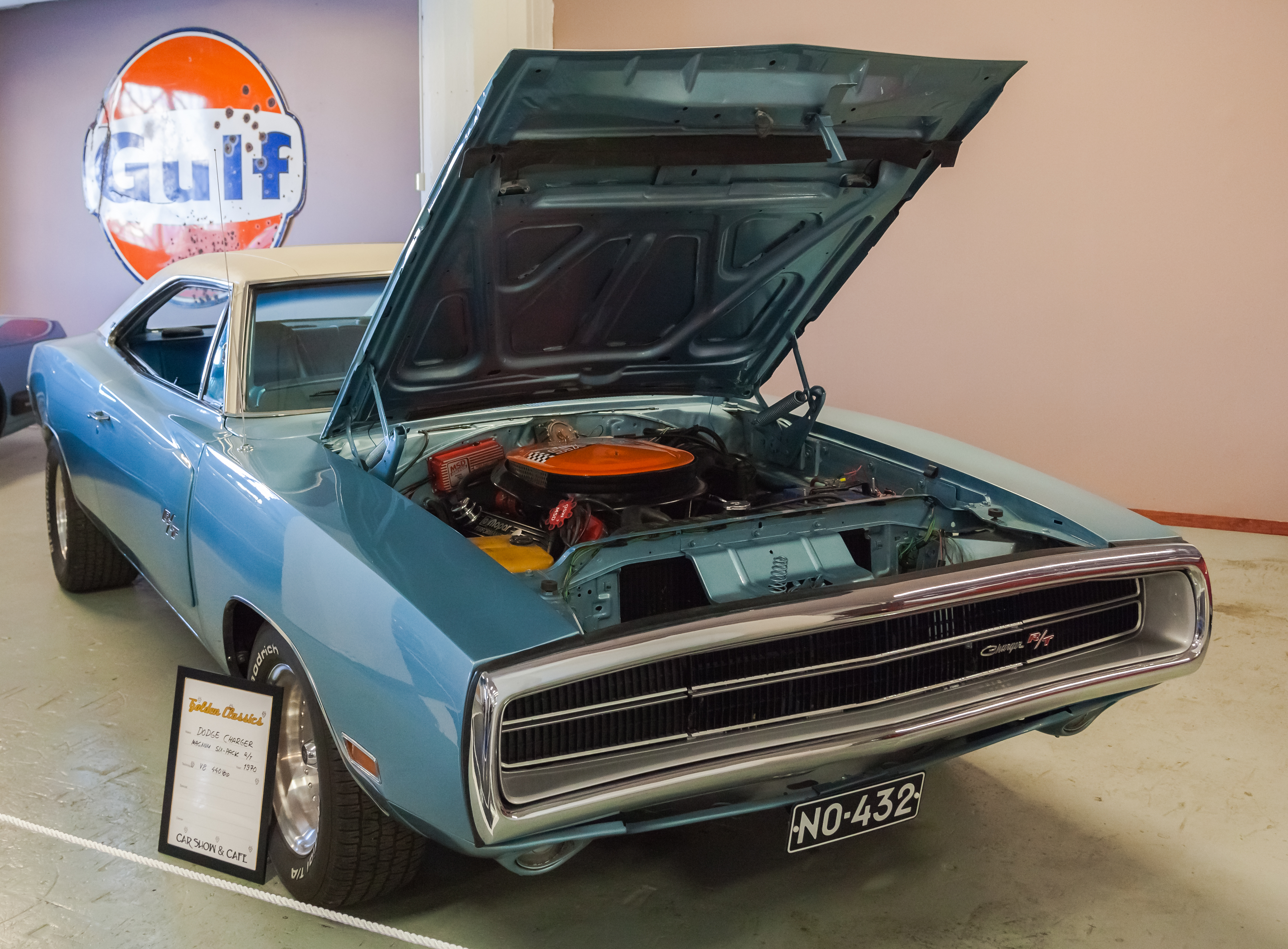 Dodge Charger Magnum Six-Pack of 1970, Helsinki, Finnland